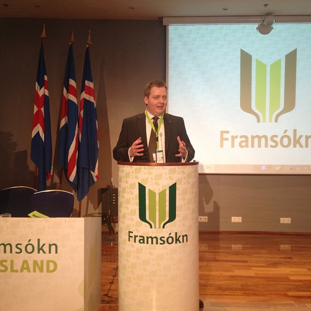 The Icelandic politician and prime minister Sigmundur Davíð Gunnlaugsson.